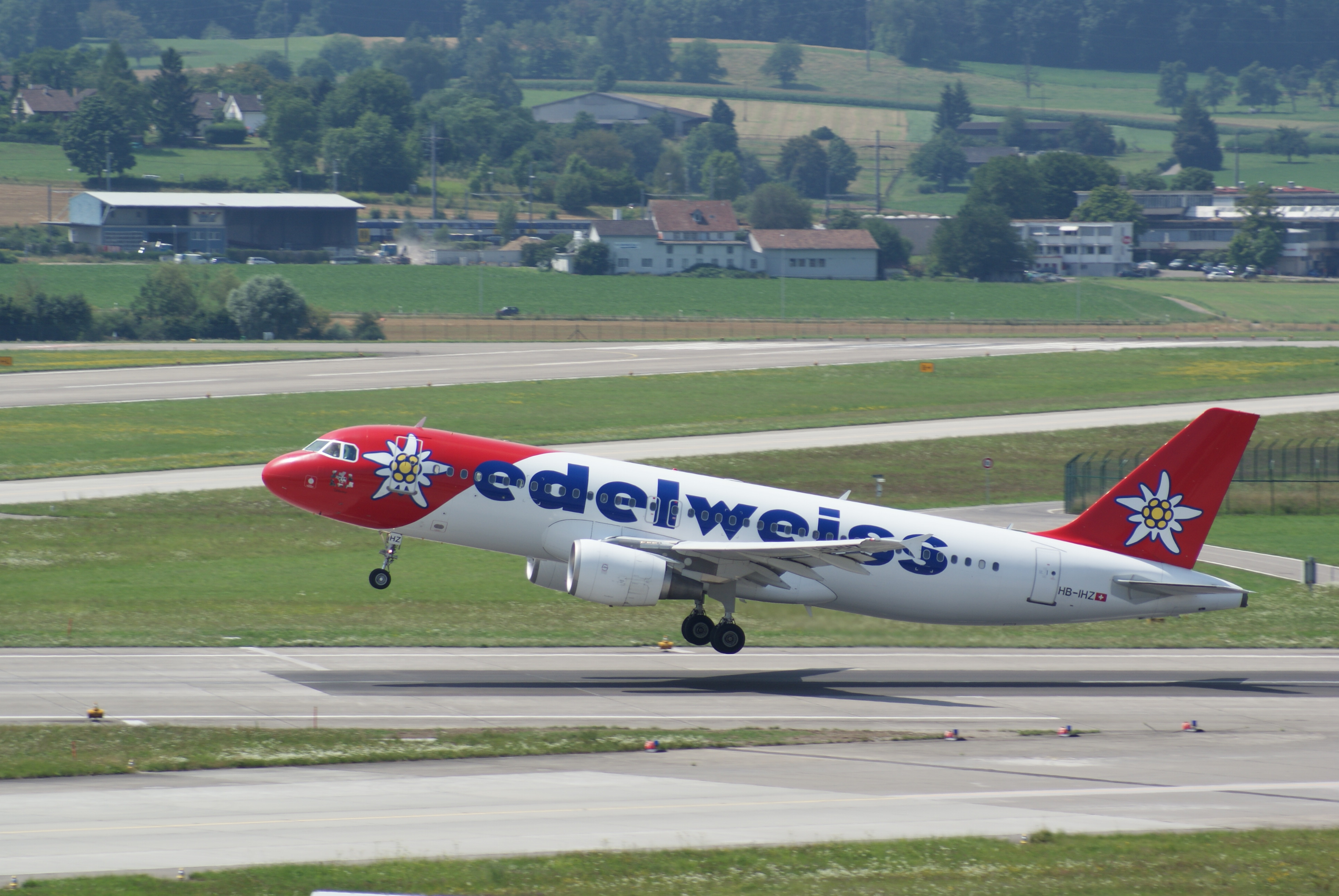 A Edelweiss Air Airbus A320-214 landing at Kloten.